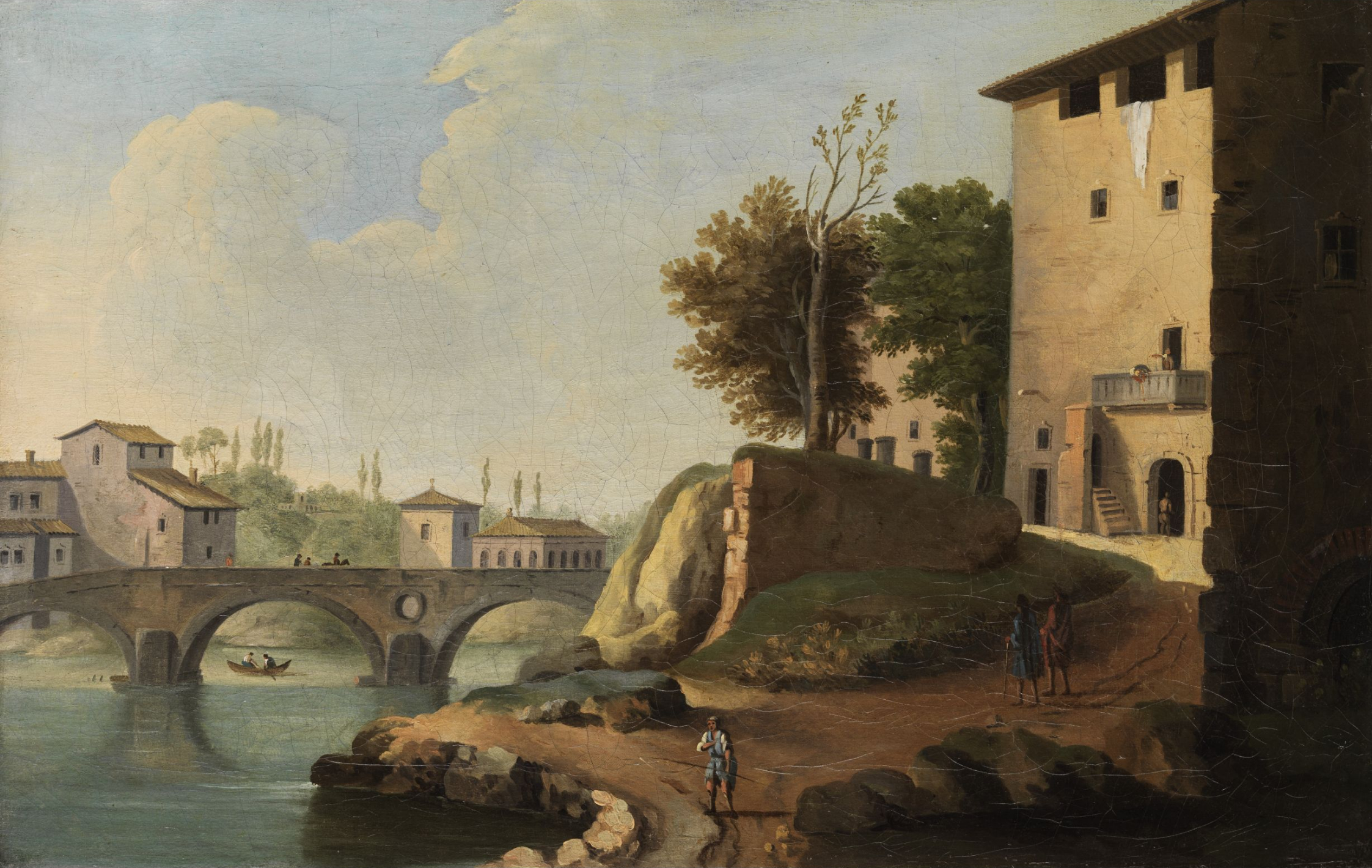 Tiber bridge in Rome with a view to the Ponte Sisto and the façade of the Farnesia